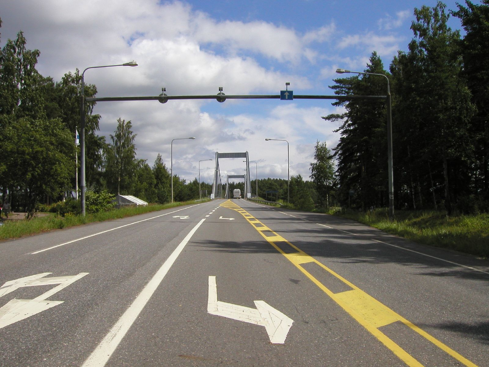 Regional road 130 near Sääksmäki, between Tampere and Hämeenlinna, Finland